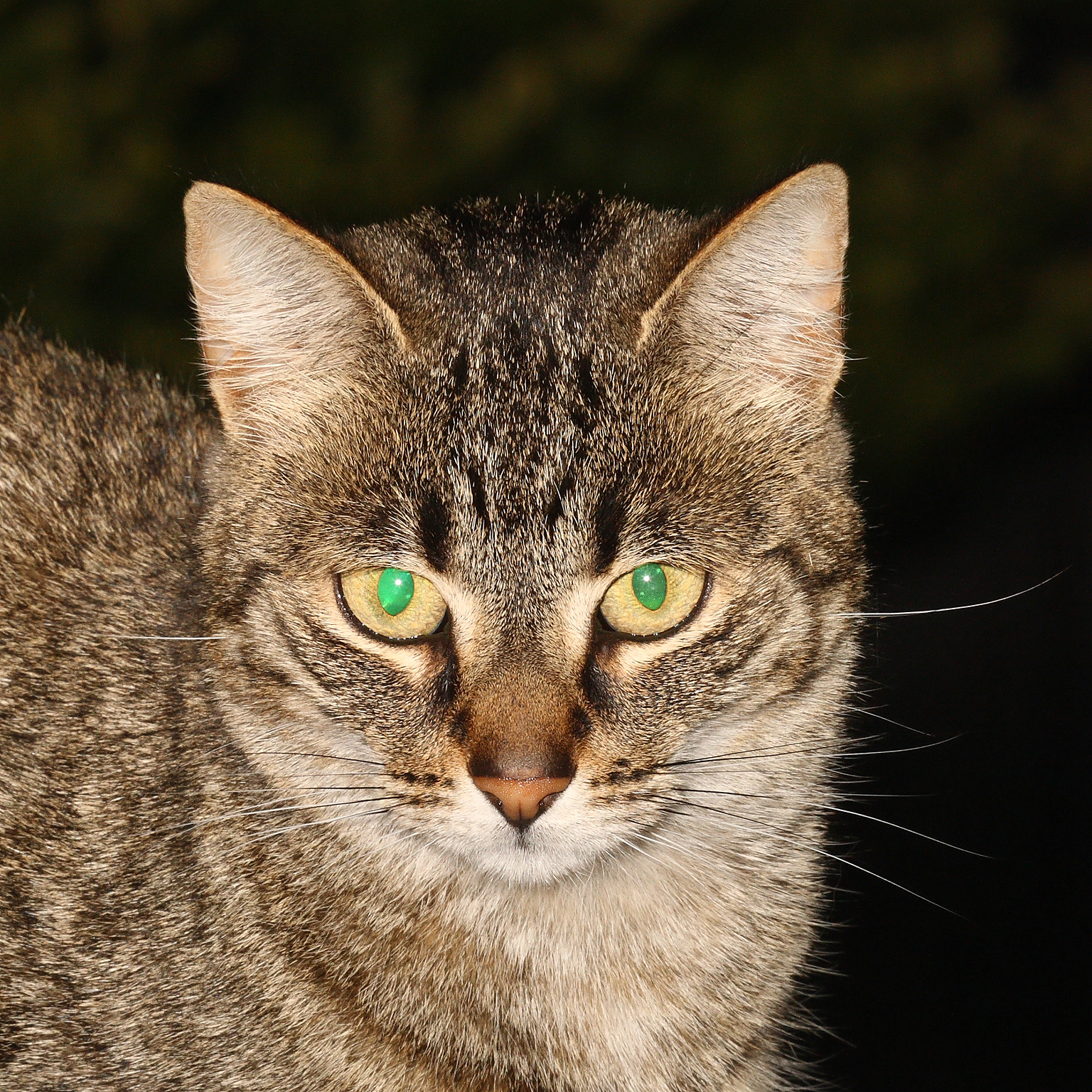 Green eyeshine from the tapetum lucidum of a house cat (Felis catus), illuminated by a photographic flash.